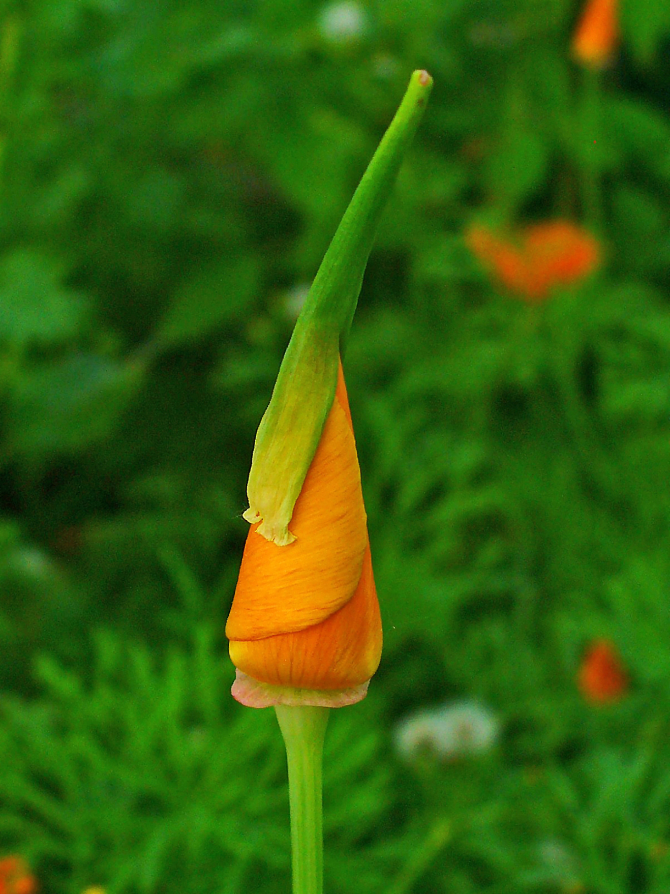 Eschscholzia californica, Papaveraceae, California poppy, flower bud; Botanical Garden KIT, Karlsruhe, Germany. The blooming plant is used in homeopathy as remedy: Eschscholzia californica (Esch.)